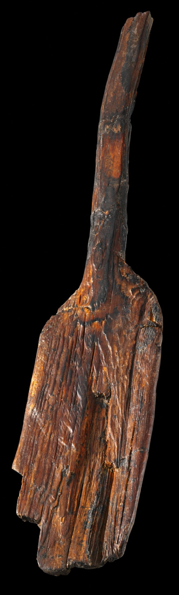 Duvensee paddle. One of the world's oldest surviving wooden paddles.